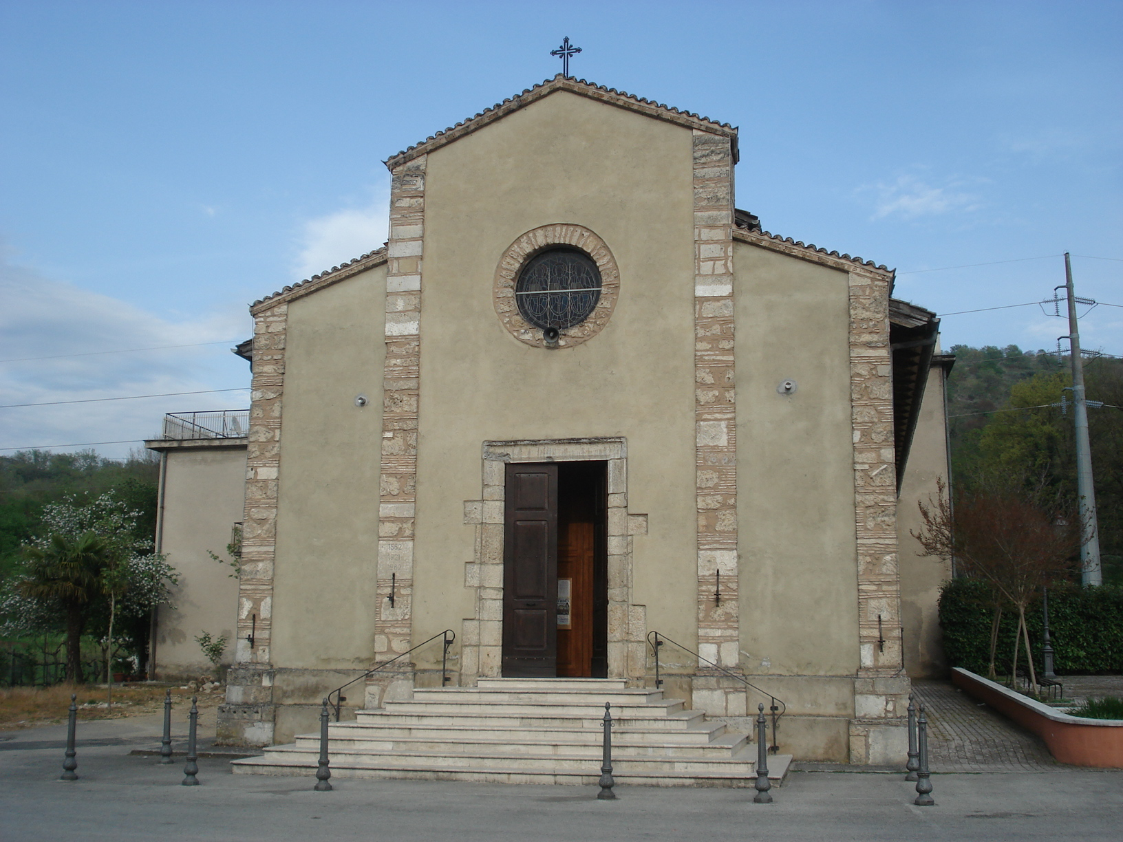 Facade of saint Eleuterio's Church in Arce, a comune (municipality) in the province of Frosinone, in the region of Lazio, Italy.